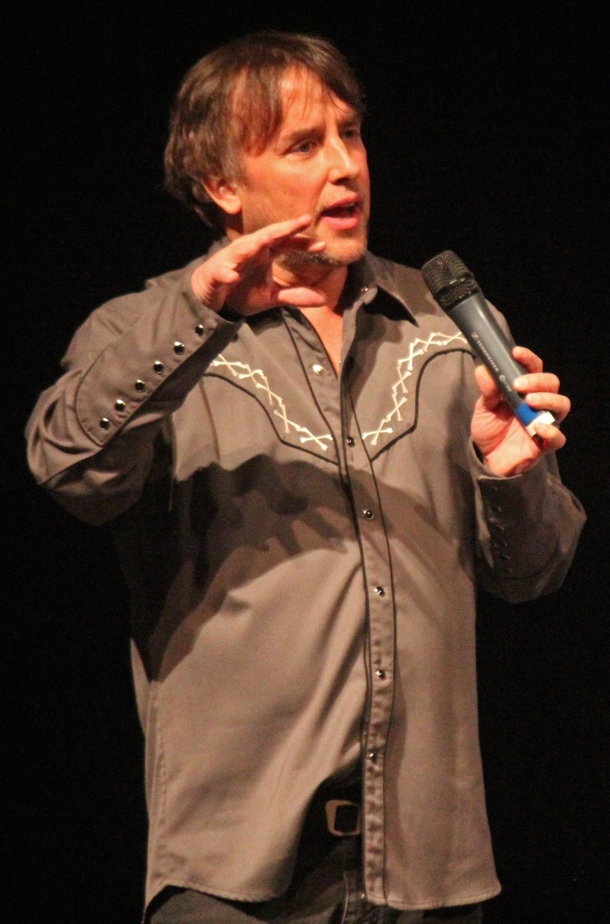 Linklater at the 2014 Sundance Film Festival